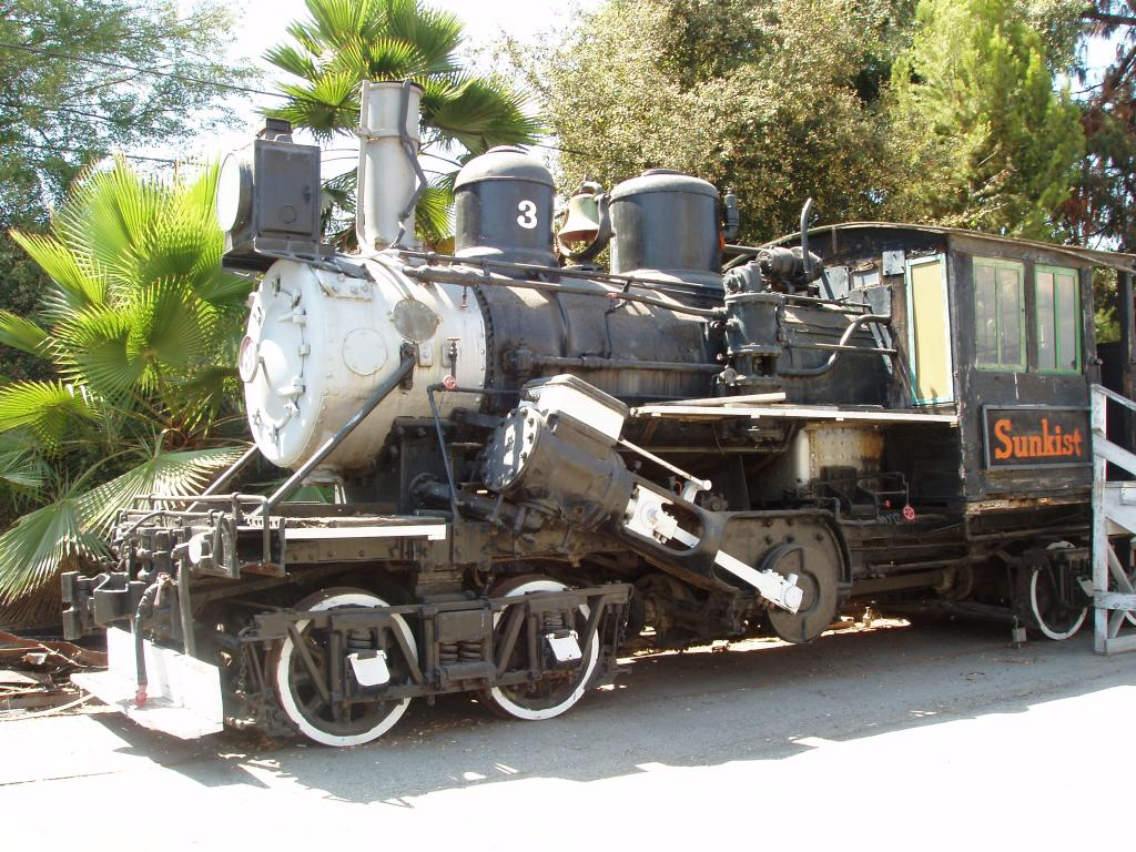 Fruit Growers Supply Company Number 3, a Climax type geared steam locomotive.